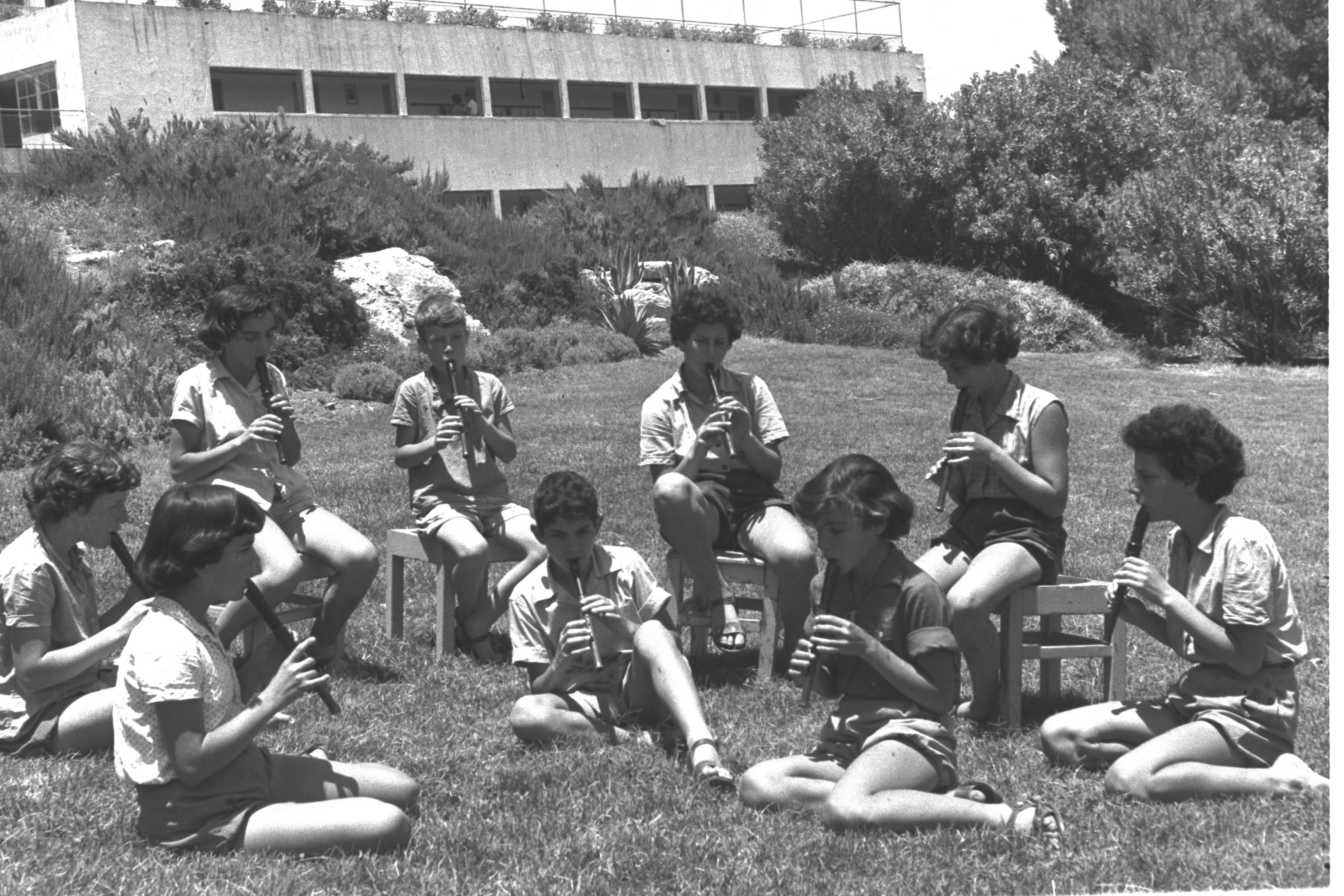 STUDENTS PLAYING THE FLUTE AT THE AGRICULTURAL SCHOOL AT KIBBUTZ MISHMAR HAEMEK